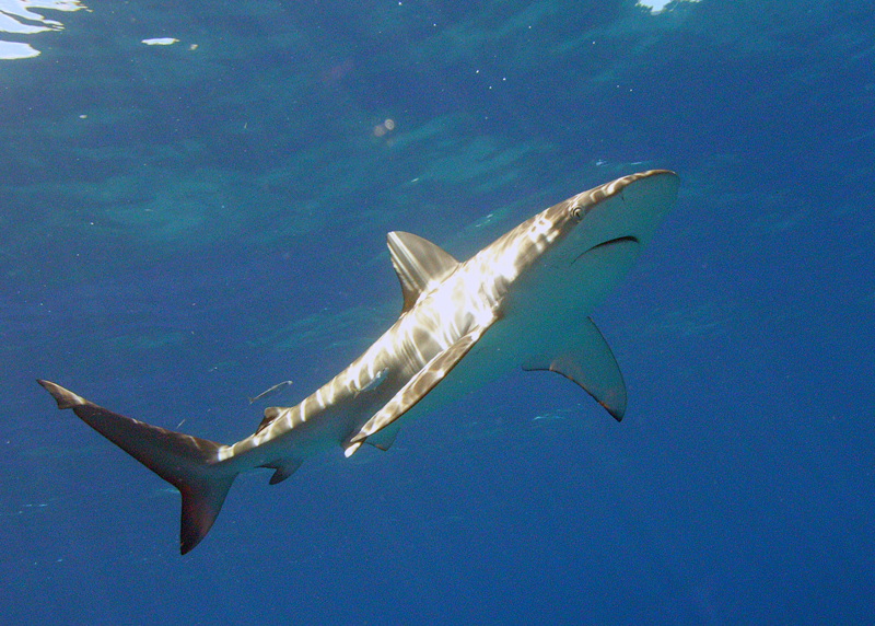 Galapagos shark (Carcharhinus galapagensis) in the Northwestern Hawaiian Islands